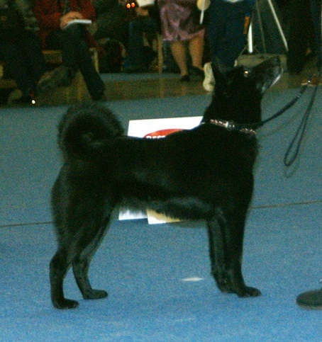 Female Black Norwegian Elkhound.